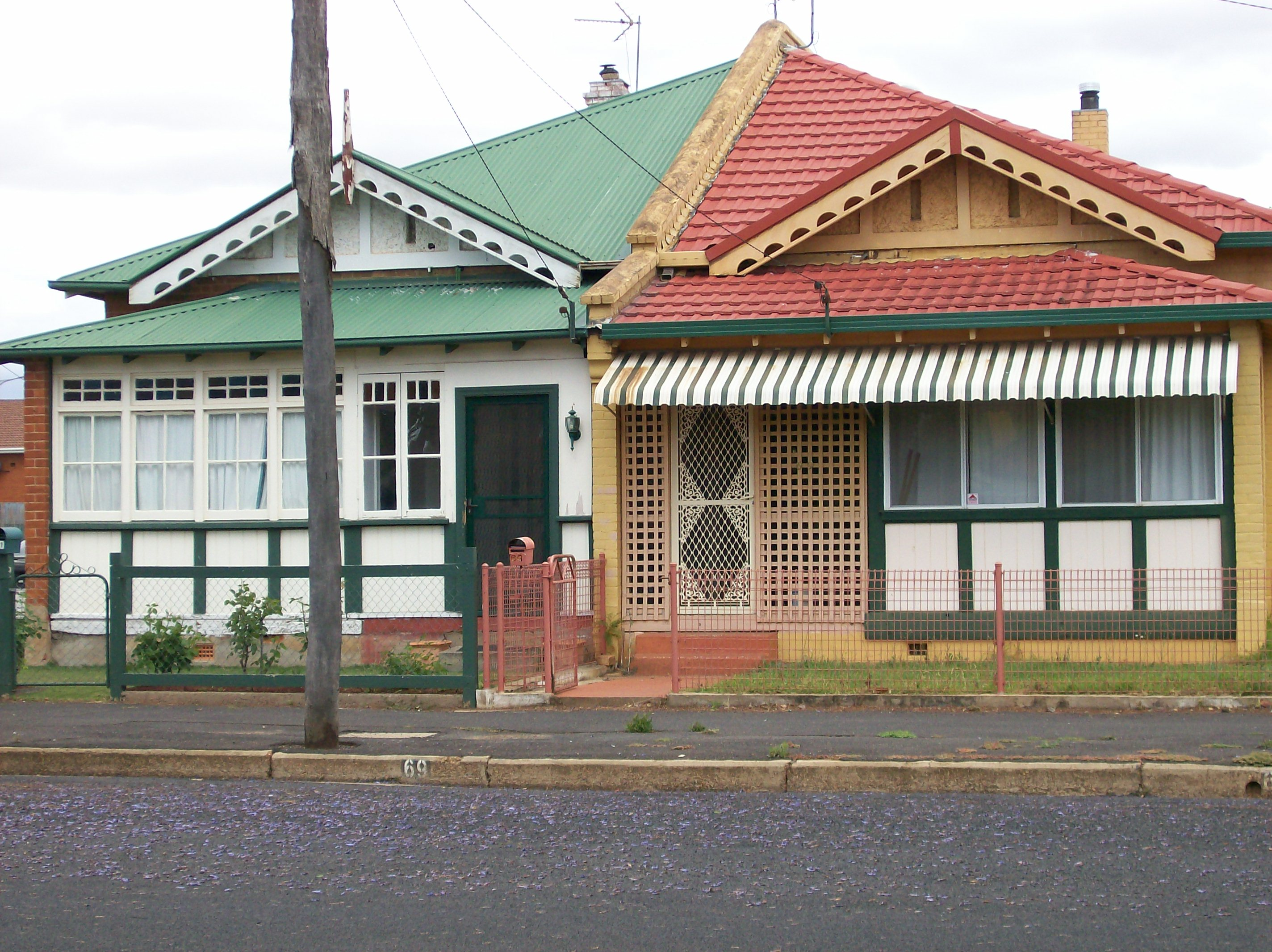 Taken by Michael Gardner November, 2007